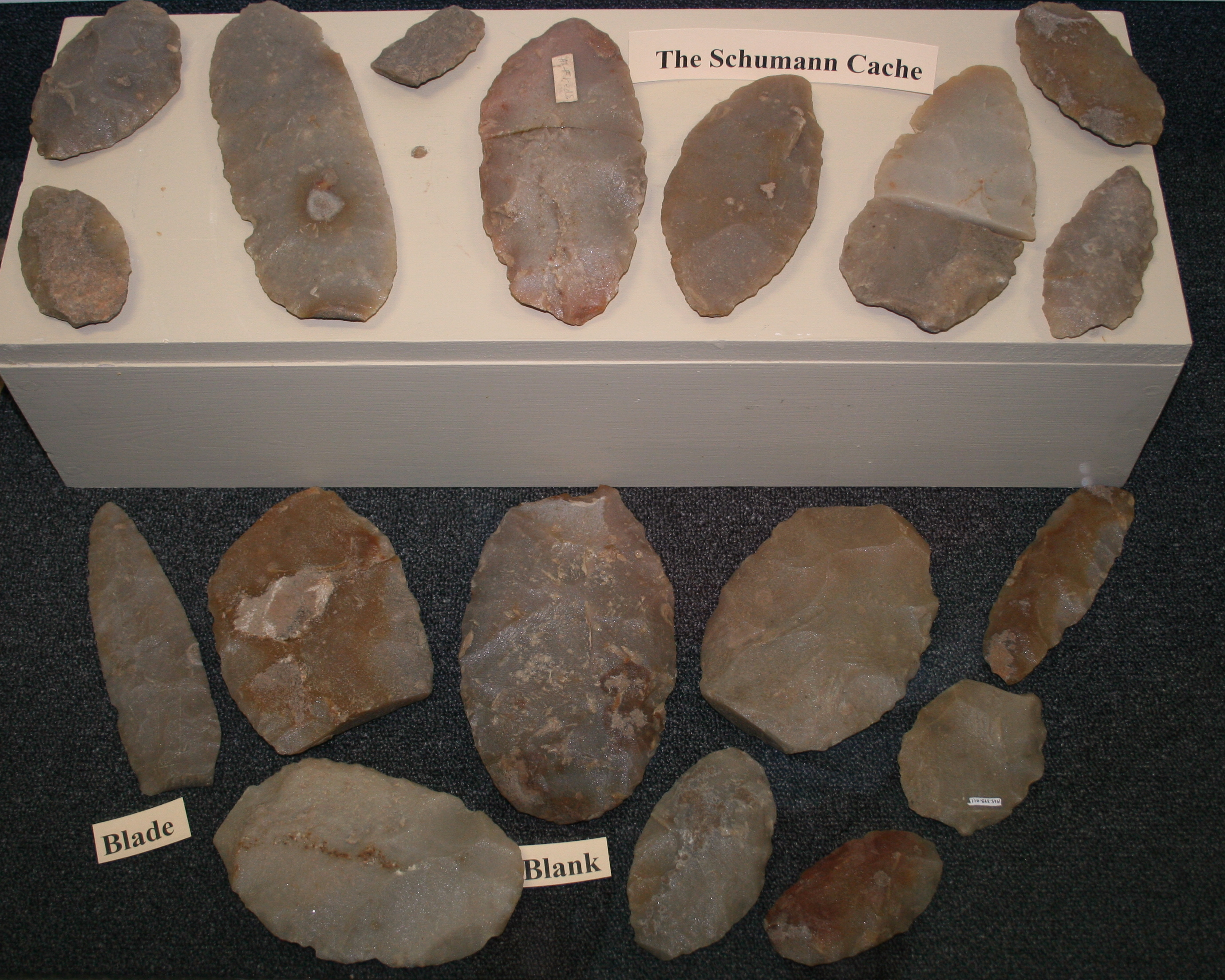 Larger objects in the Schumann Cache of Paleolithic artifacts found near Rochester, Minnesota on display at the Olmsted County Historical Society Museum.